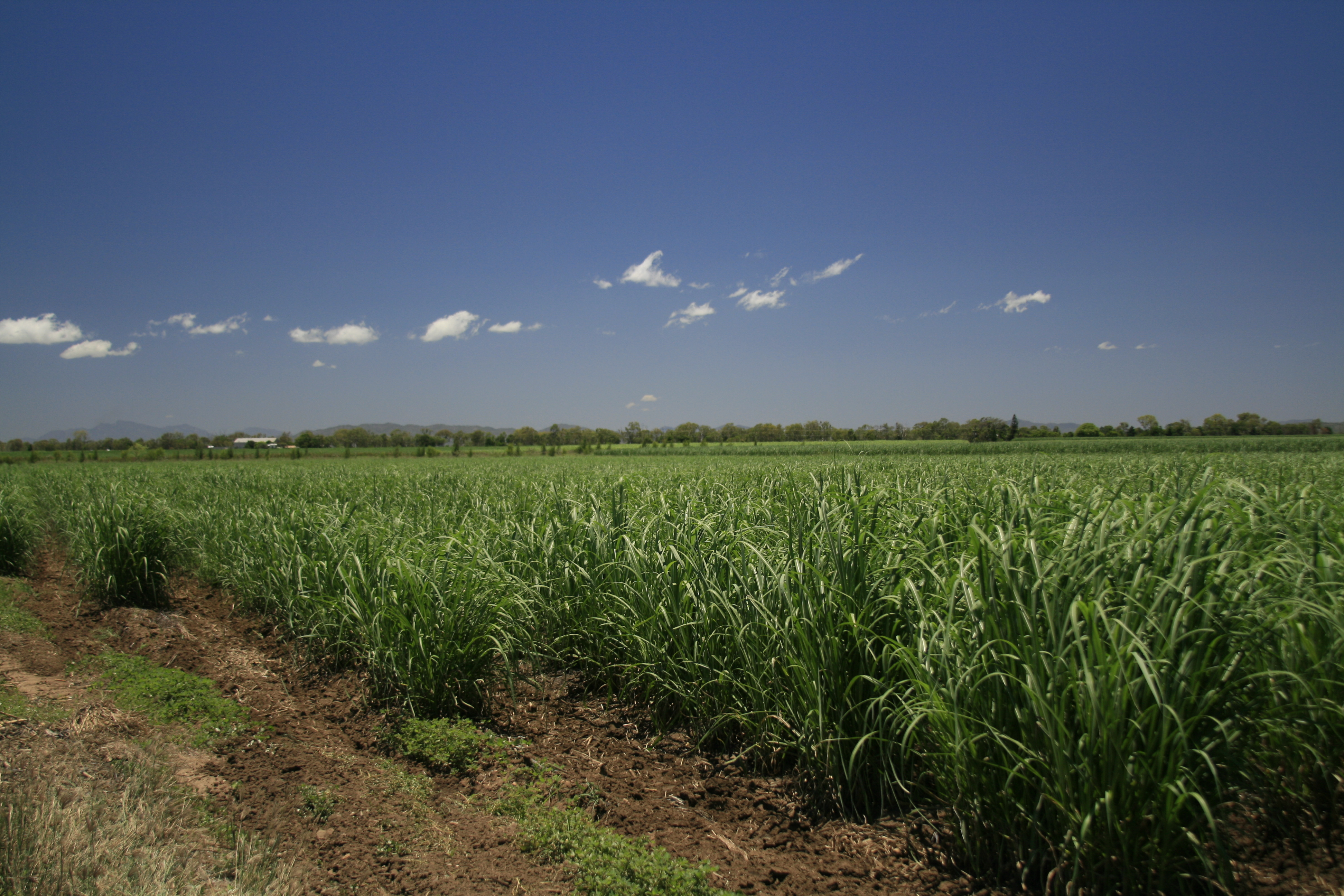 A field of sugarcane somewhere in Northern Queensland, Australia